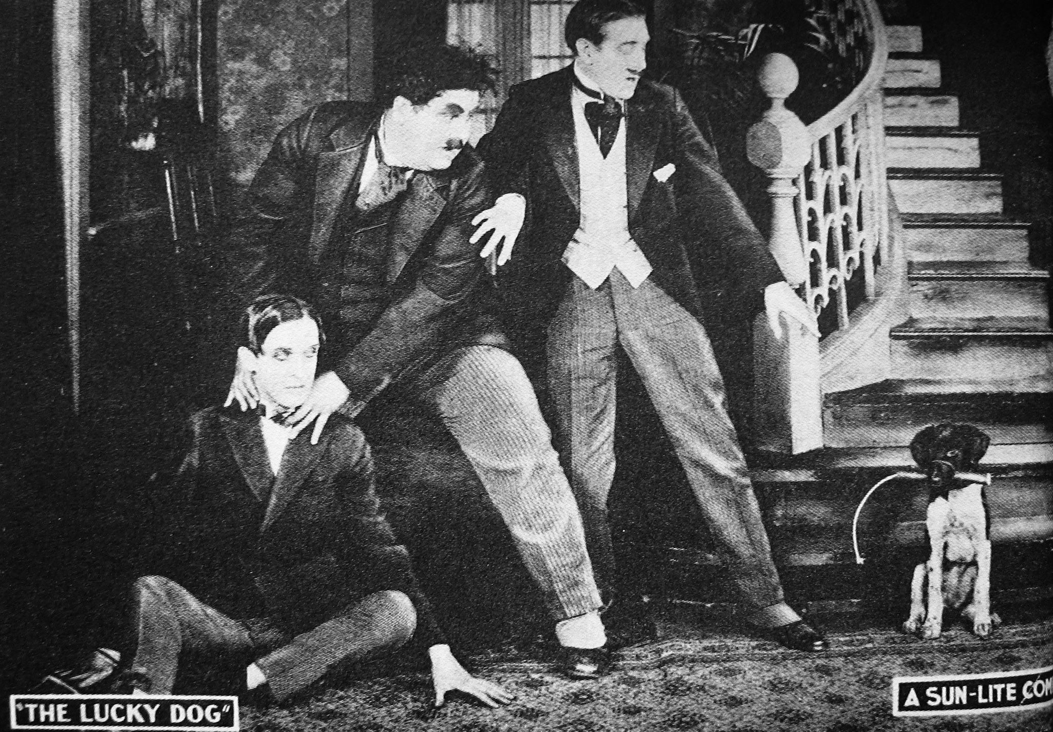 Lobby Card c. 1921 featuring the first appearance on film by Laurel and Hardy, in The Lucky Dog produced in 1919 and released in 1921. Stan Laurel is seated with a mustachioed Oliver Hardy's hands around his neck. Jack Lloyd is the other man.